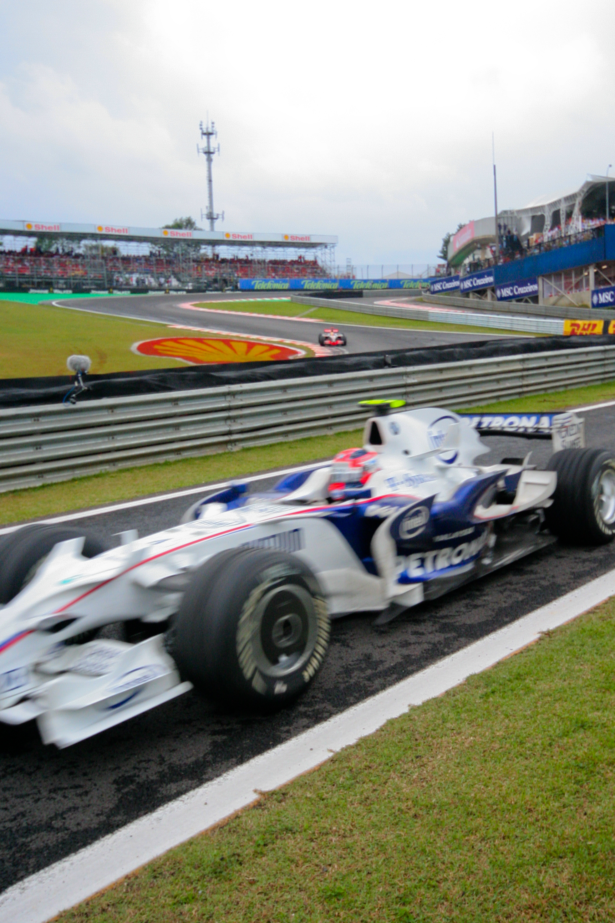 Kubica exiting the pits